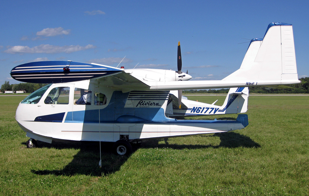 Nardi/SIAI FN.333 Riviera N627 built in 1962 at the EAA Airventure at Oshkosh, Wisconsin